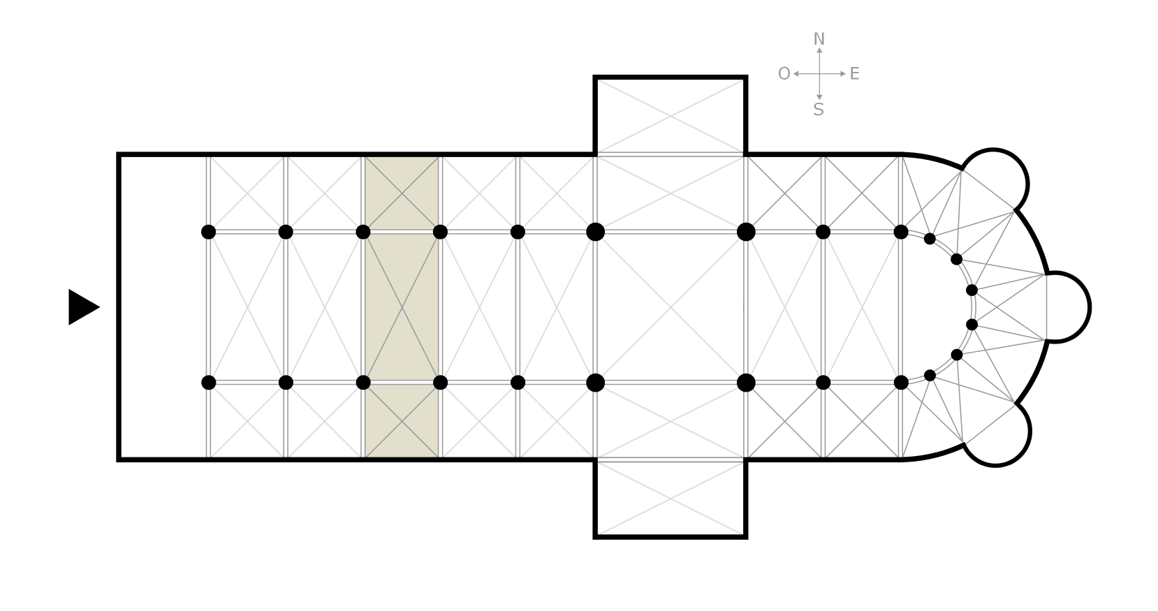 Schematical illustration of a plan view of a cathedral. Colored area: Bay.